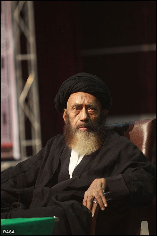 1388سید طیب جزایری